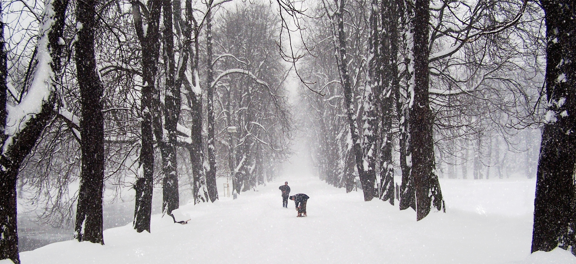 Winter in Český Těšín (Czeski Cieszyn). Avenue during heavy snowfall, two man with a dog.